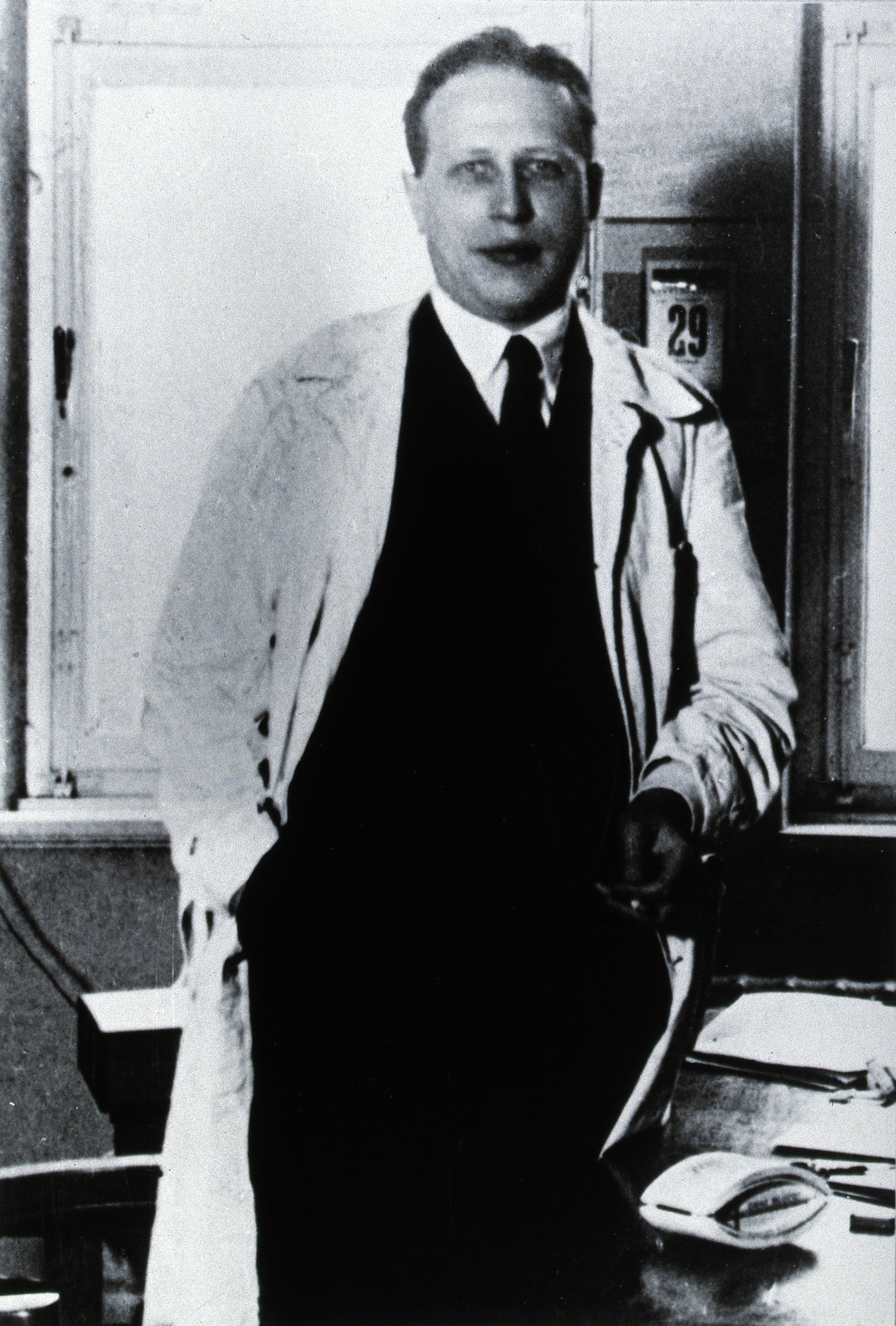 Walter Kikuth. Photograph by L.J. Bruce-Chwatt. Iconographic Collections Keywords: portrait photographs